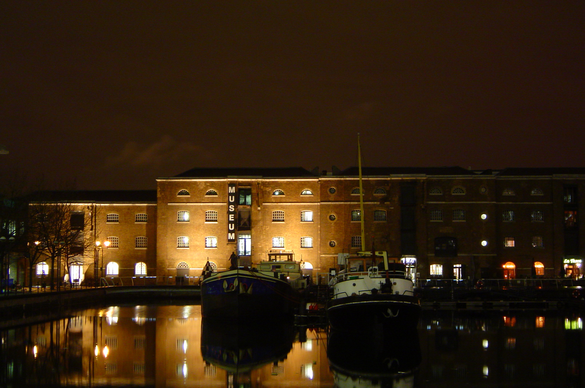 Museum in Docklands (London, UK) at night, 10 January 2005